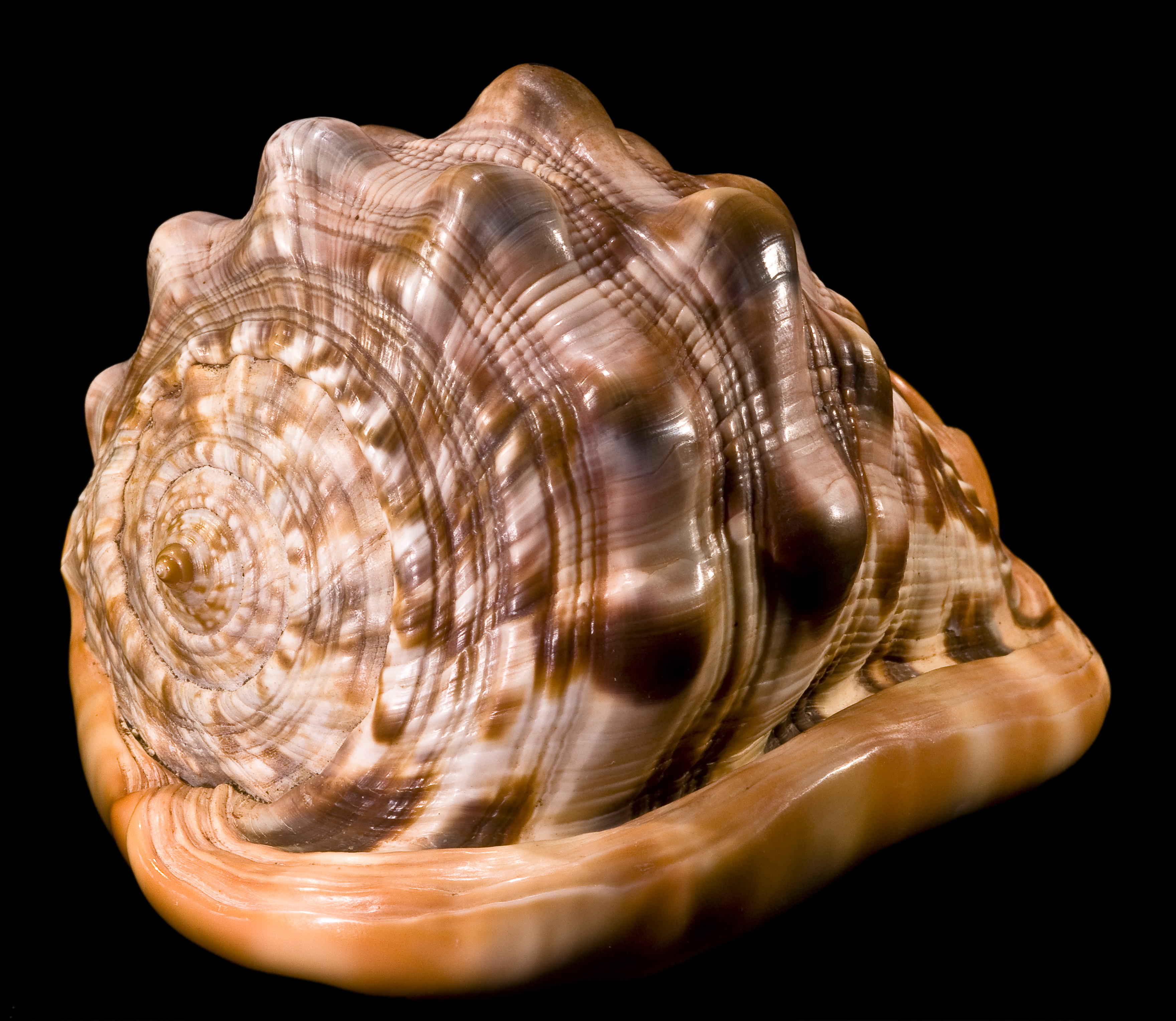 The shell of Cypraecassis rufa - Size 12.2 cm.